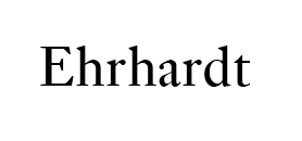 A preview of the font 'Ehrhardt'